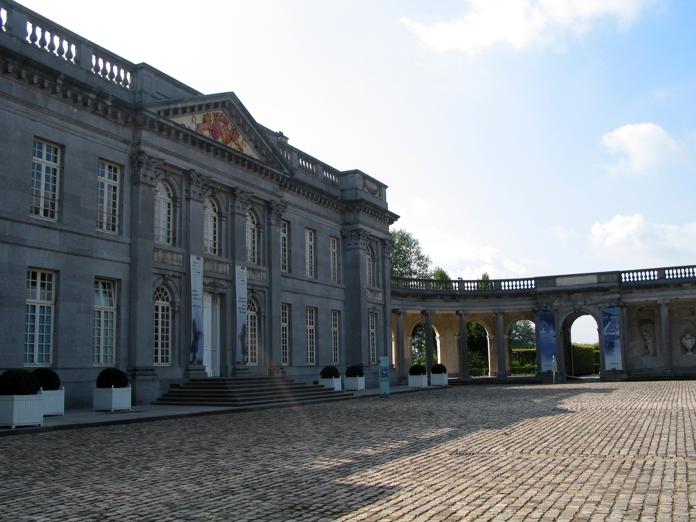 Seneffe (Belgium), the castle (1763/1768 - Architect: Laurent-Benoit Dewez).